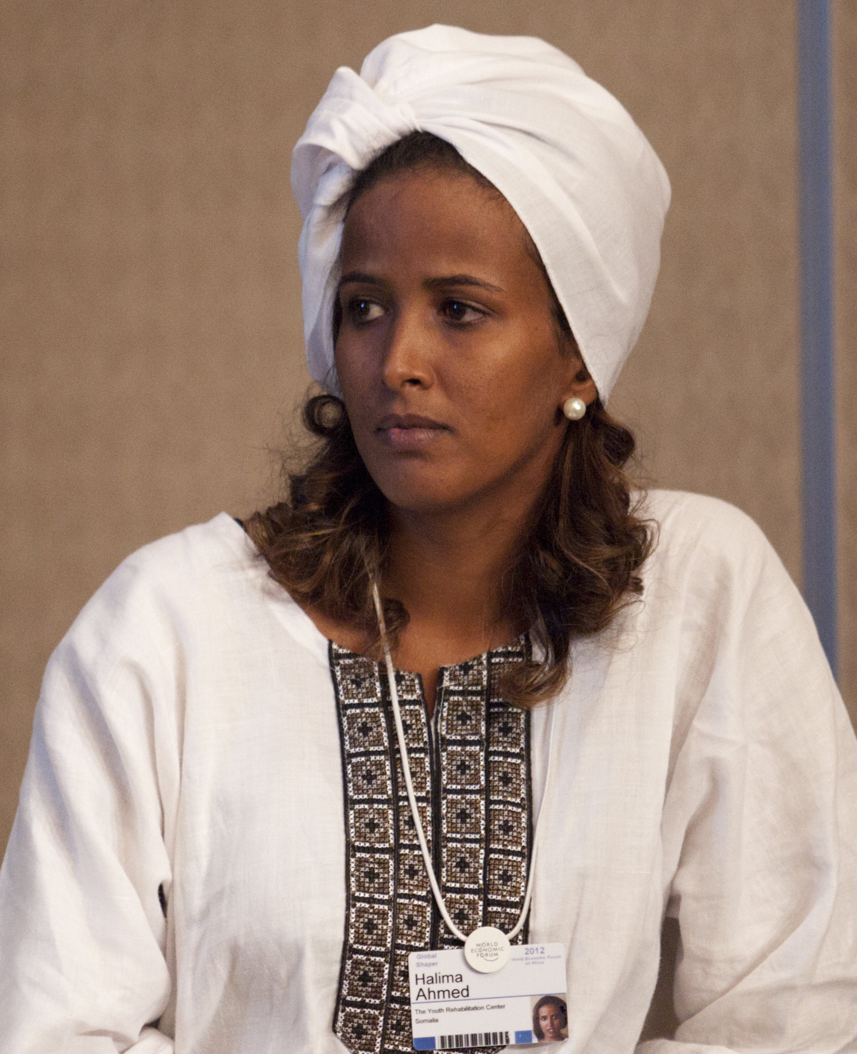 Somali writer and political activist Halima Ahmed at the 2012 World Economic Forum in Addis Ababa, Ethiopia.